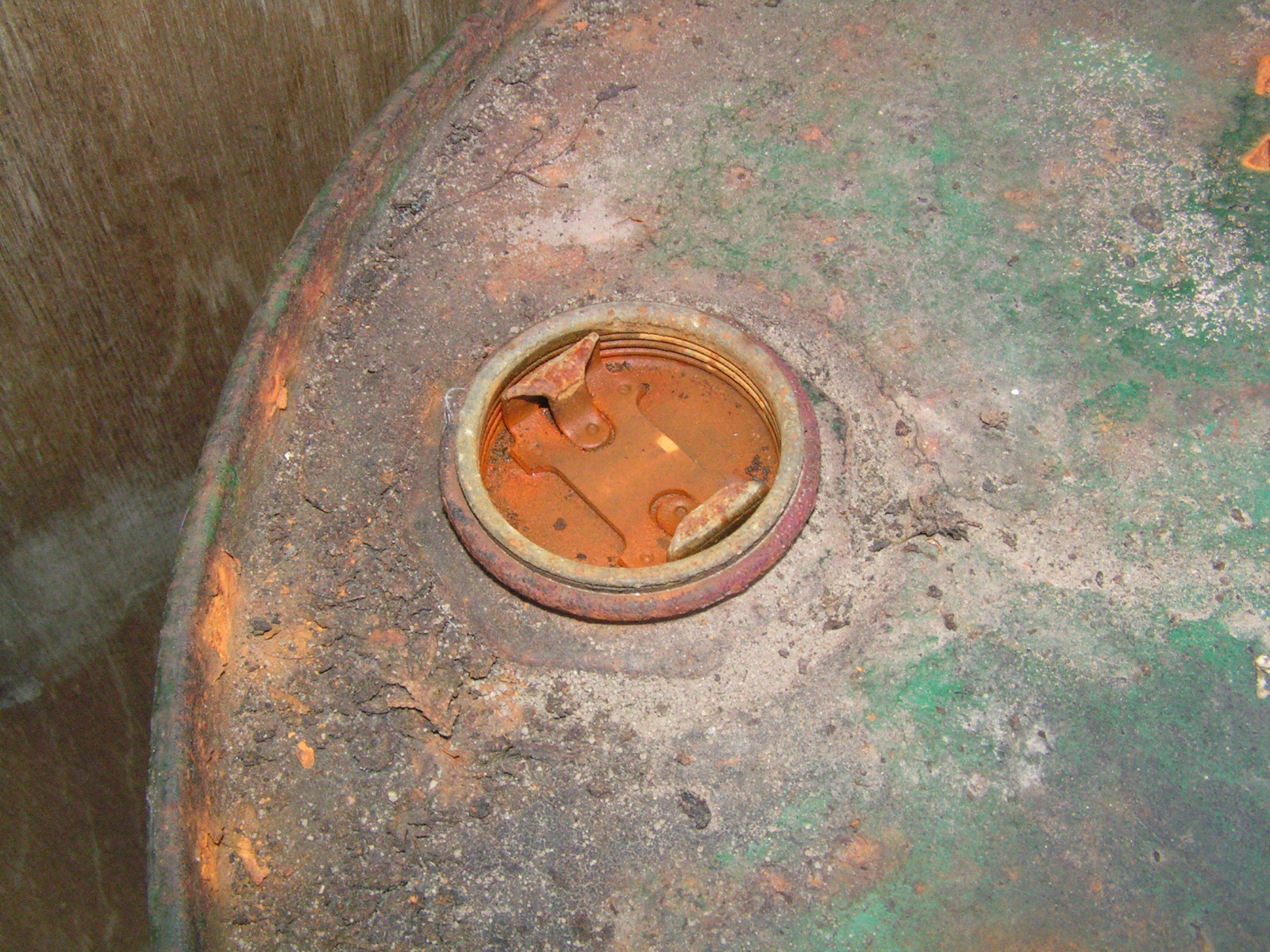 Drainhole on a 208-litre oildrum.